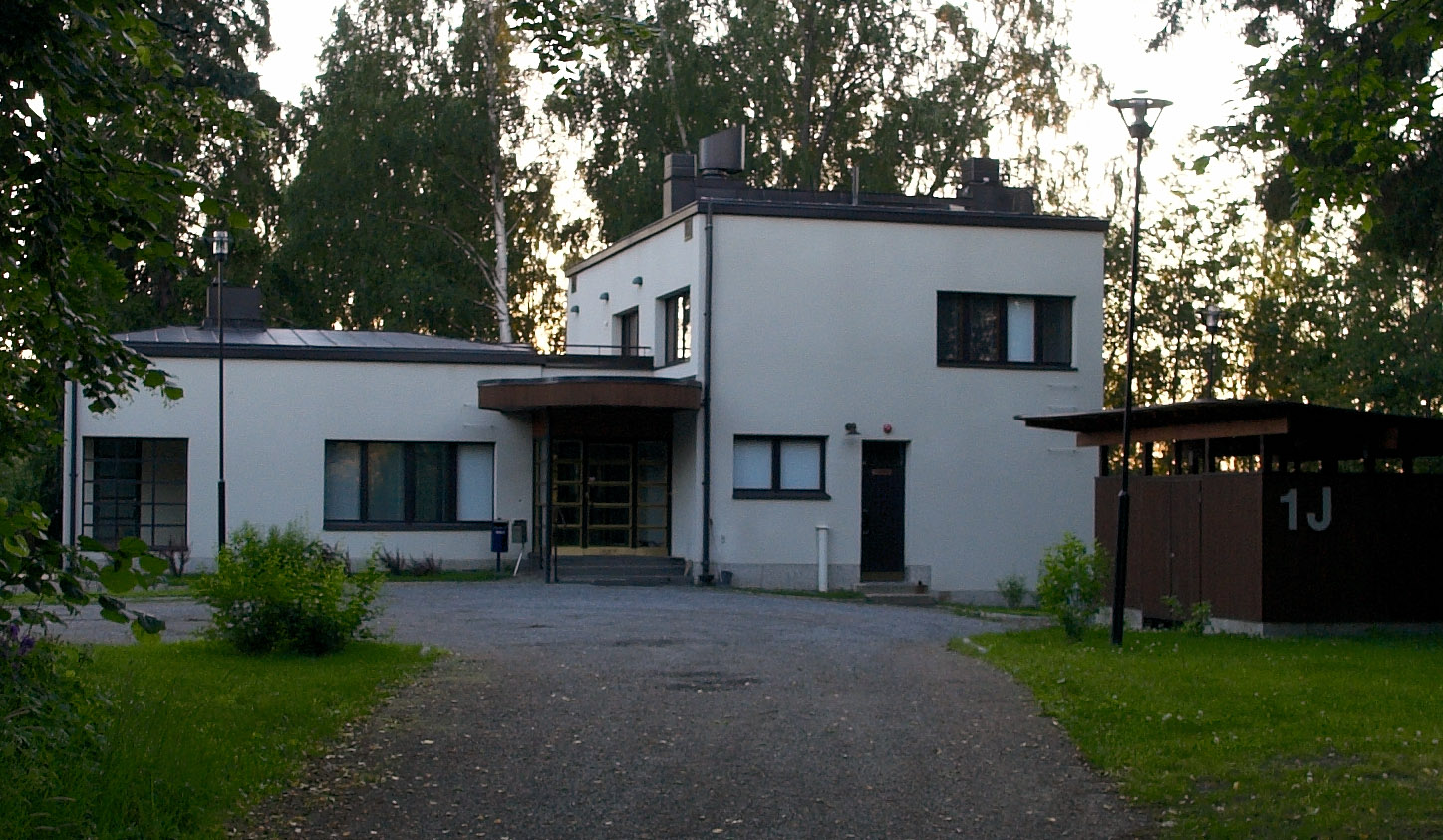 Tiukanlinna at Kuopio University campus area in Kuopio Science Park, Kuopio, Finland.